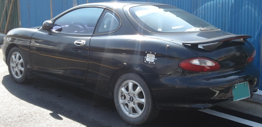 Hyundai Tiburon